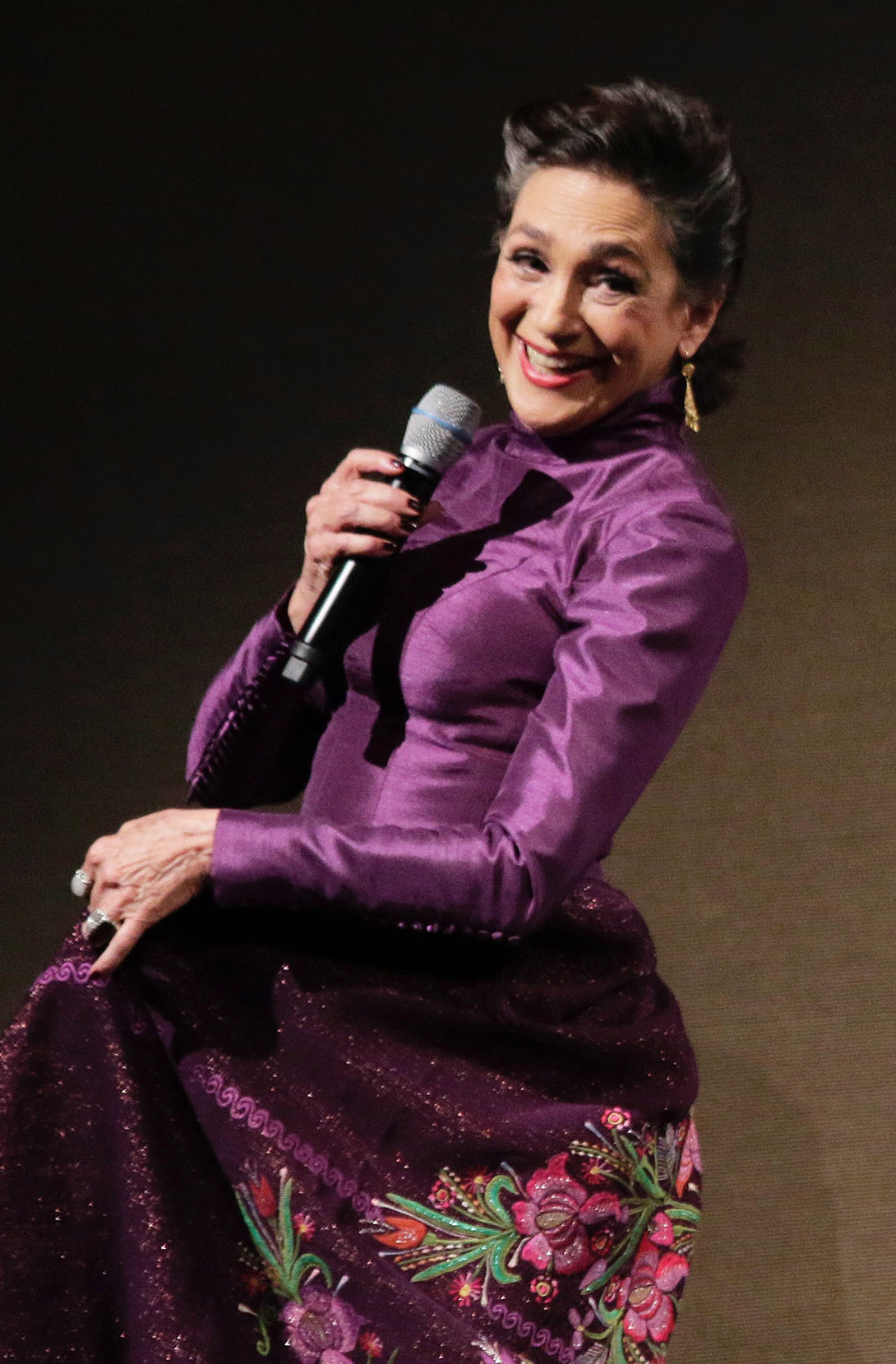 Jueves 16 de mayo de 2019 Teatro de la Ciudad Esperanza Iris inició el 23 Festival Mix: Cine y Diversidad Sexual con la entrega de varios reconocimientos uno a la actriz Ofelia Medina a cargo de José Alfonso Suárez del Real, secretario de Cultura de la Ciudad de México, otro a al productor de la serie Aristemo Juan Osorio y a los actores Emilio Osorio y Joaquín Bondoni, además se proyectaron las cintas Disturbio (Riot, Australia), de Jeffrey Walker, y Déjennos brillar (México) de Héctor Torres. Fotografía: Tania Victoria/ Secretaría de Cultura de la Ciudad de México